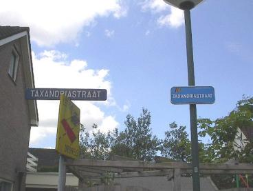 Belgian house with Dutch garden in Baarle, village that is divided between Belgium and Netherlands. Belgium is on the right, Netherlands on the left. Belgian enclaves are situated in the Northern part of Baarle village. Note the difference between Belgian and Dutch street name plates.